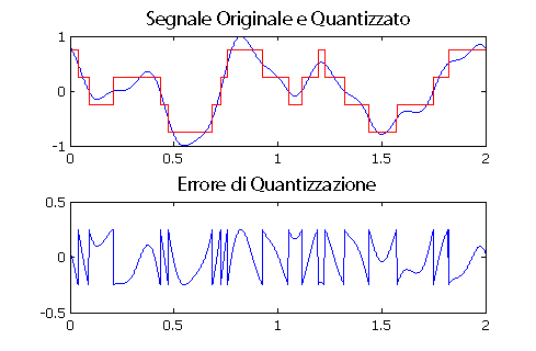 Plot of a quantized signal and its error Italian translation of english original image